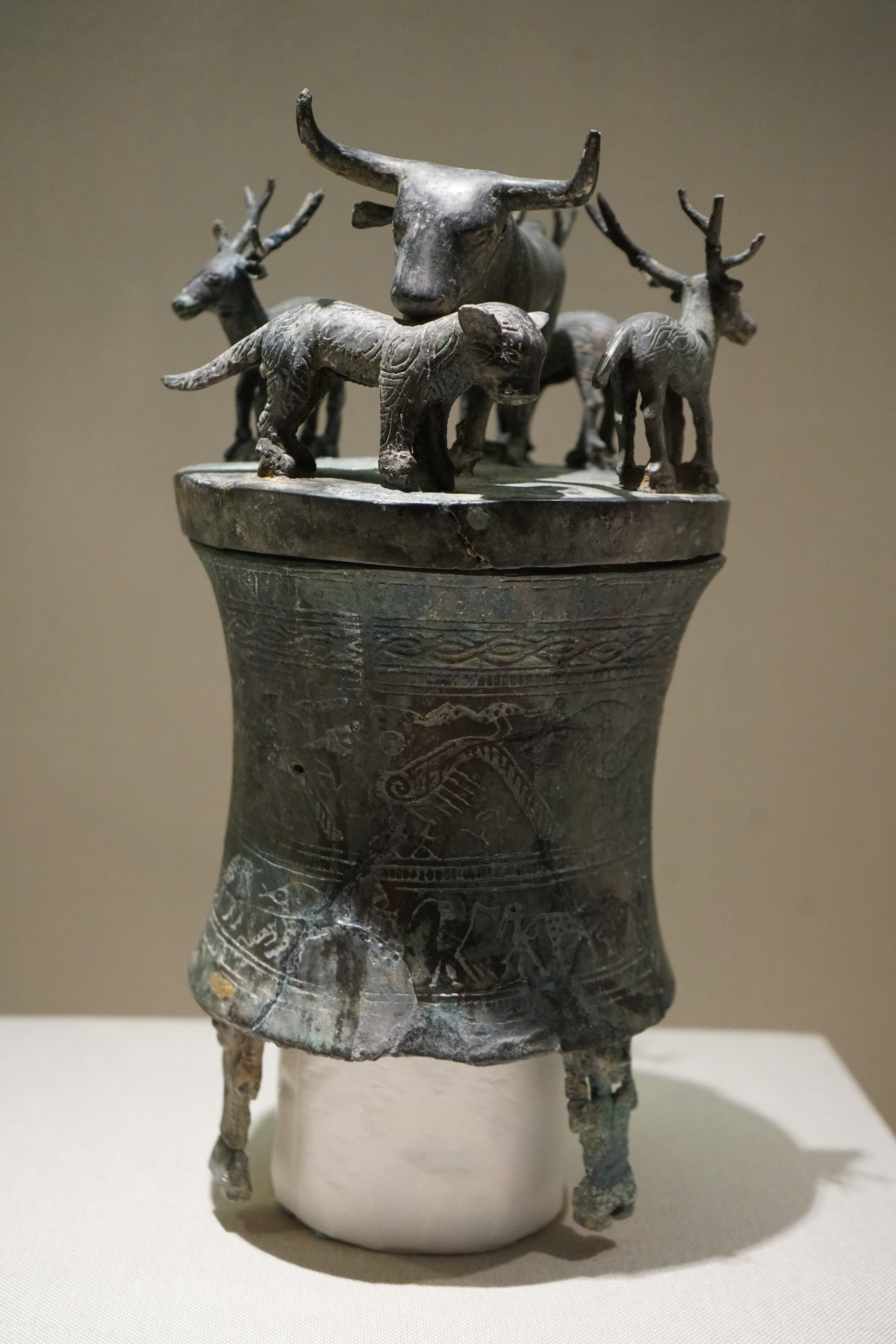 Bronze Crowie Container with Figurines of Tiger, Deer and Ox. Warrinf States Period. Unearthed at Lijiashan, Jiangchuan County. First Grade Culture Relic.